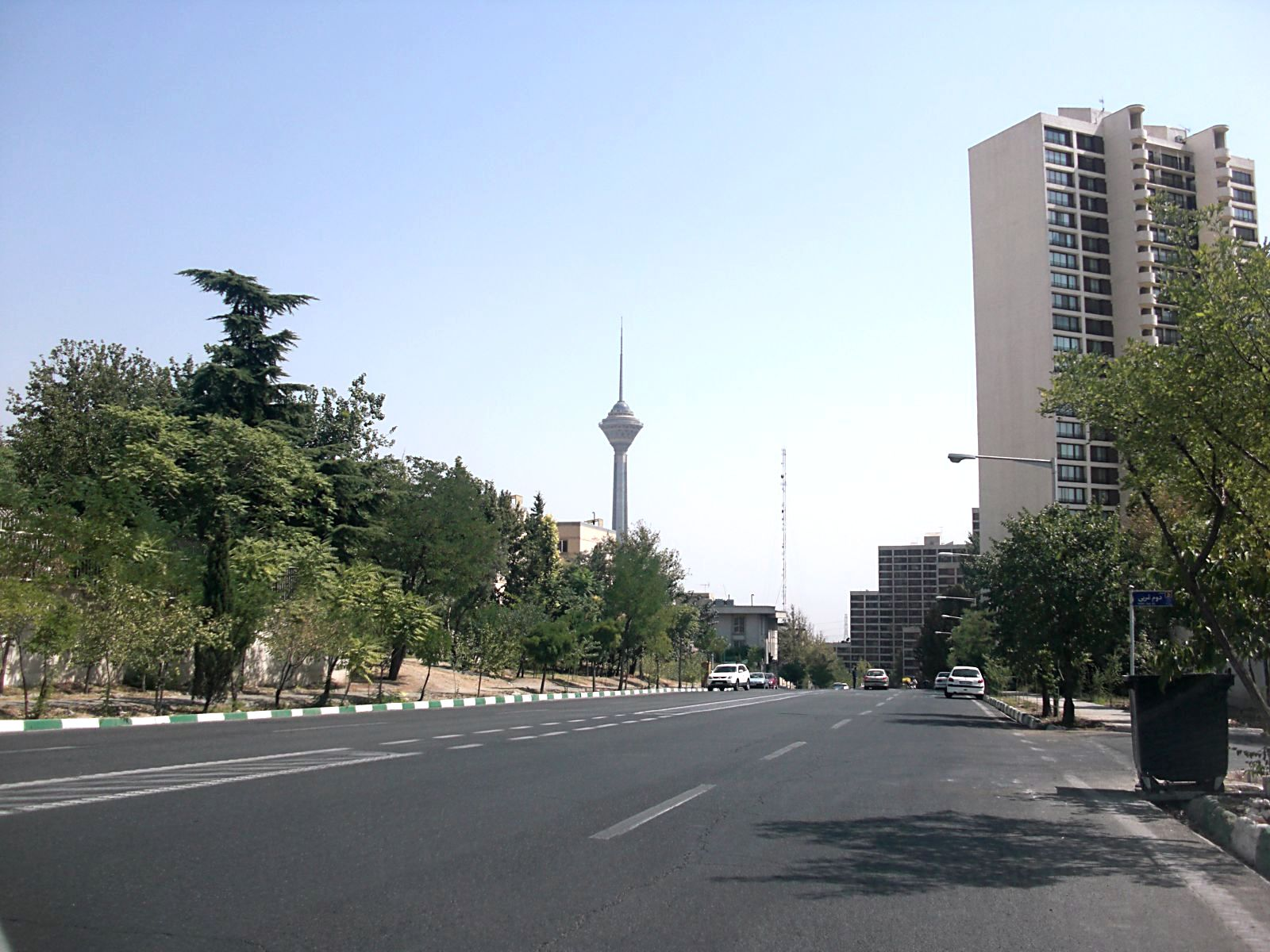 Tehran, Shahrake Gharb, Hormozan Street